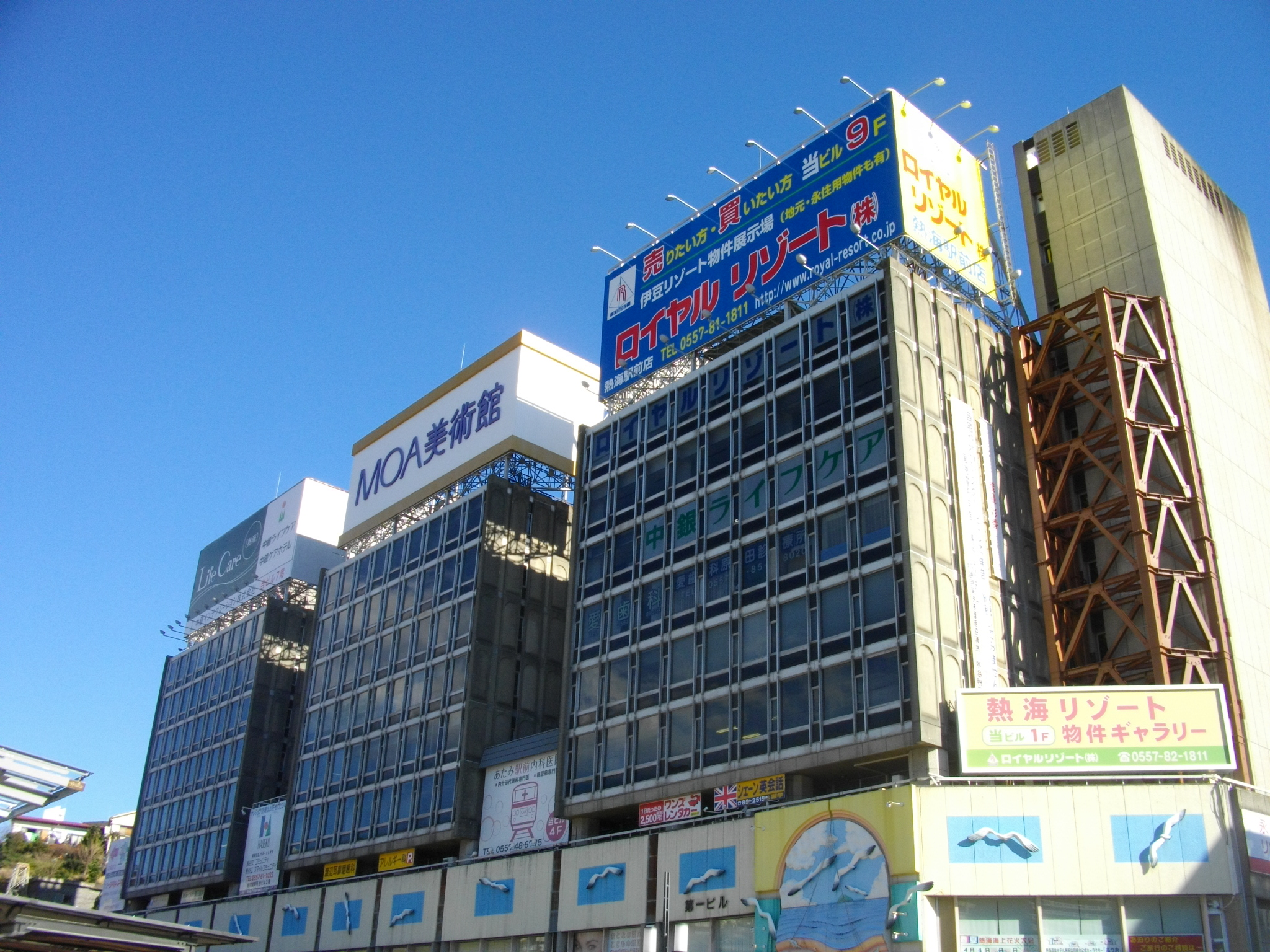 Atami Daiichi Building